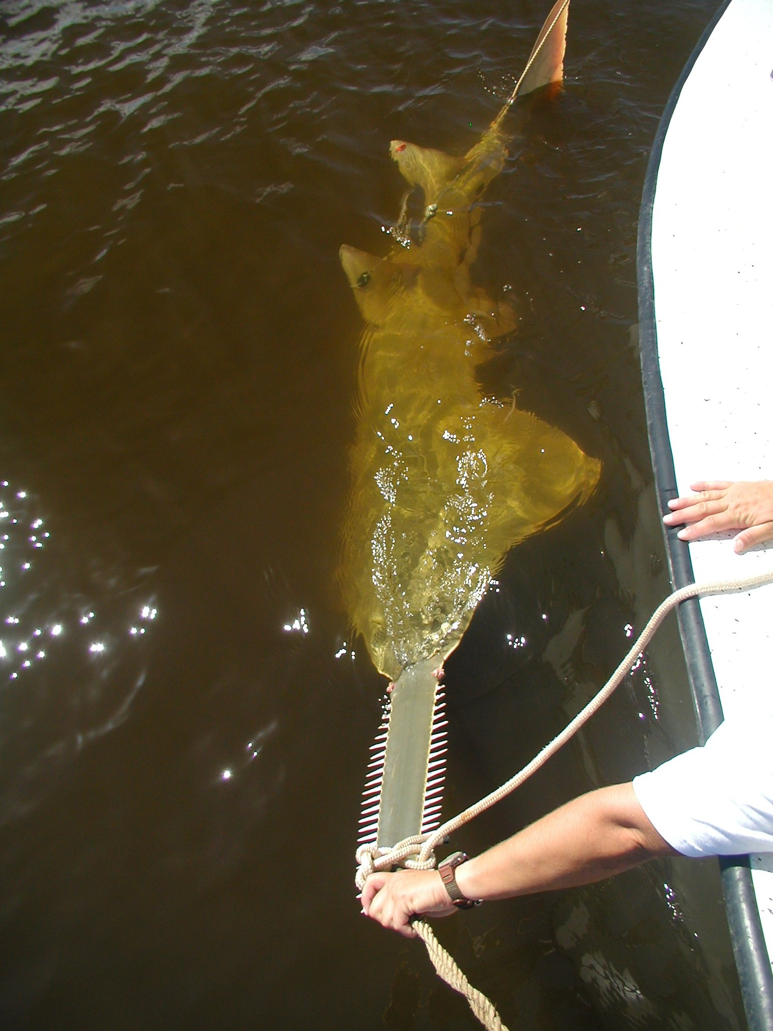 A large sawfish brought alongside for tagging. The rostrum is the protruding " saw" and its tooth-like appendages are called "denticles."